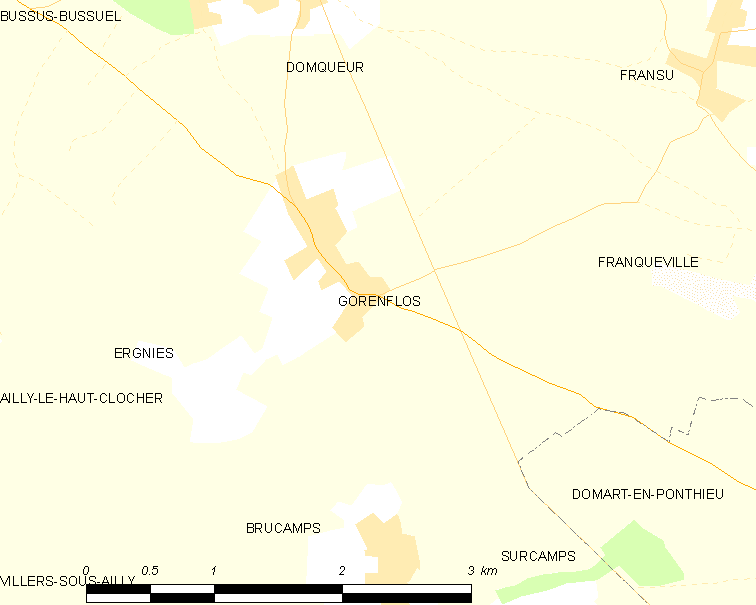 Map of French municipality Gorenflos